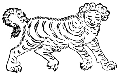 Kaimeijuū (開明獣) from the Shan Hai Jing (山海经, Chinese picture)